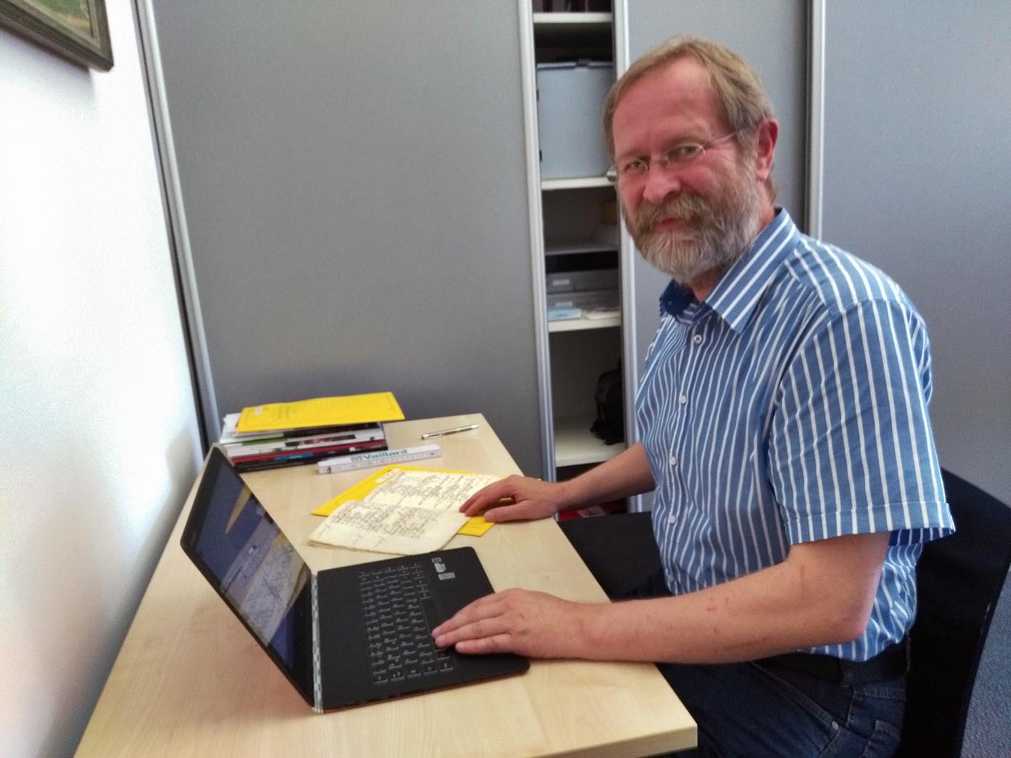 Rainer Leng in researching the city archives Bad Neustadt